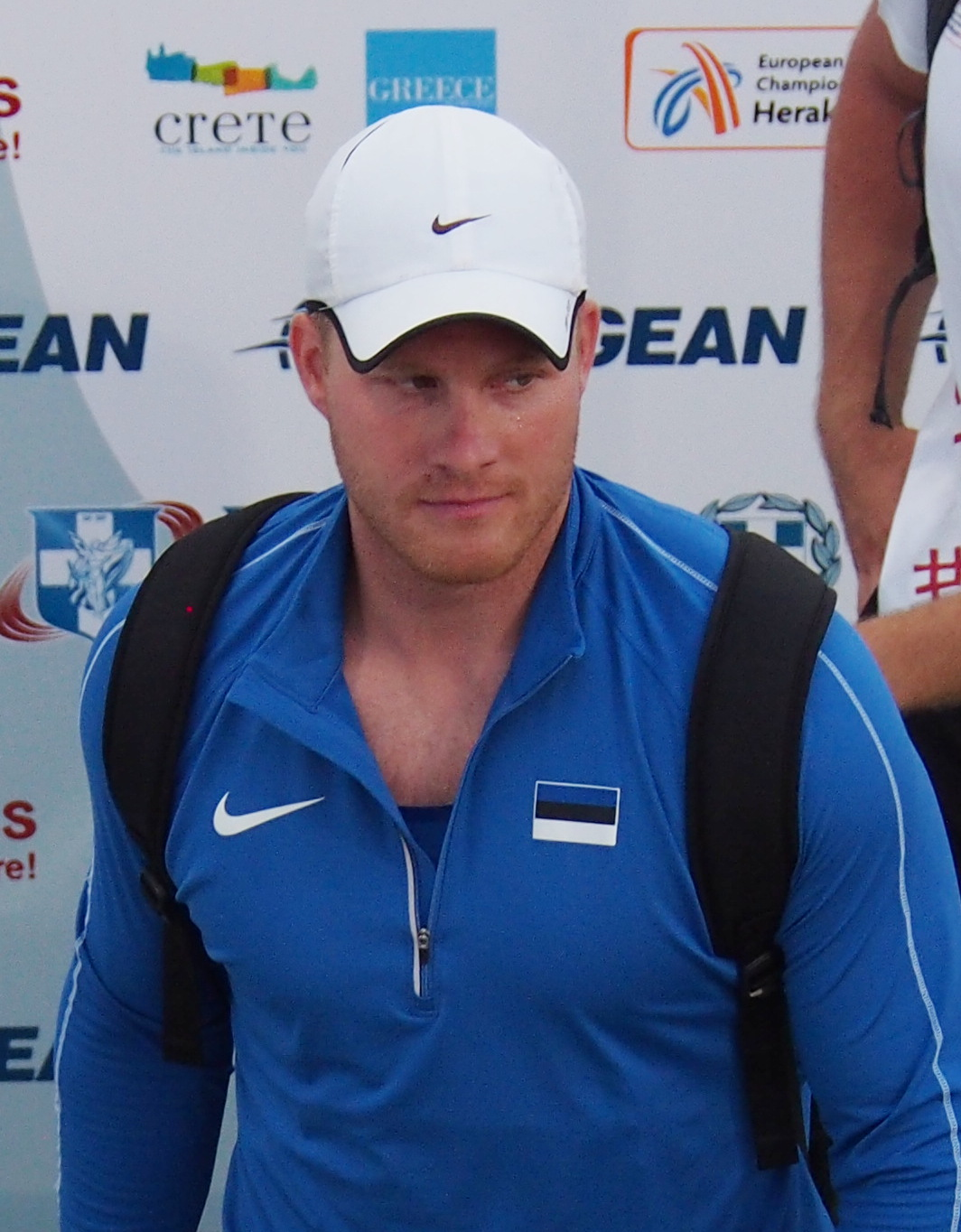 Tanel Laanmäe after the end of javelin throwing in 2015 European Team Championships First League, held in Heraklion at 20-21 June. Tanel Laanmäe won the event with a throw at 82.67 m (PB).